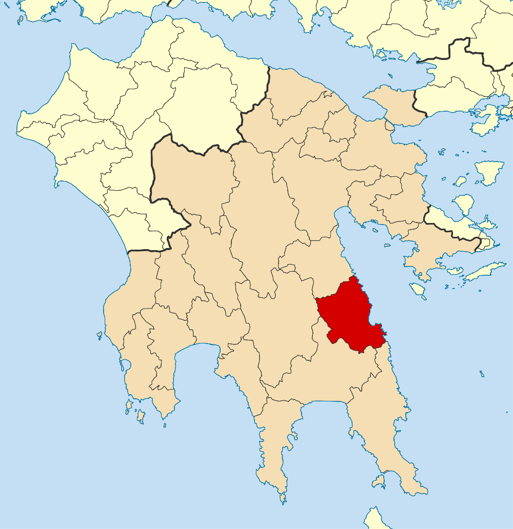 Locator map for Leonidi municipality in Greek region Peloponnese (2011)